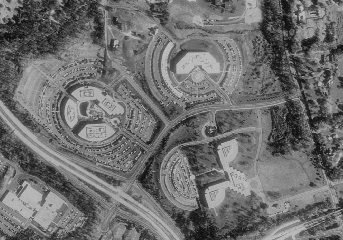 Aerial view of 2000 Purchase Street